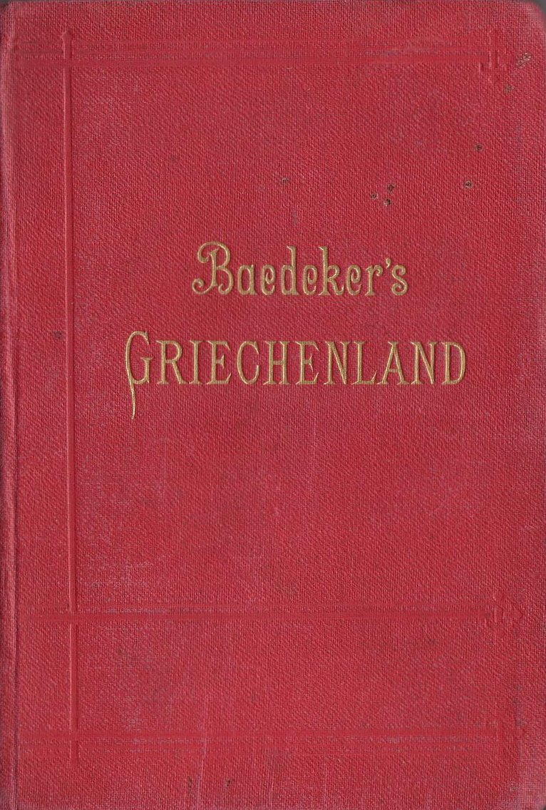 Baedekers: Griechenland 1904, Vorderdeckel